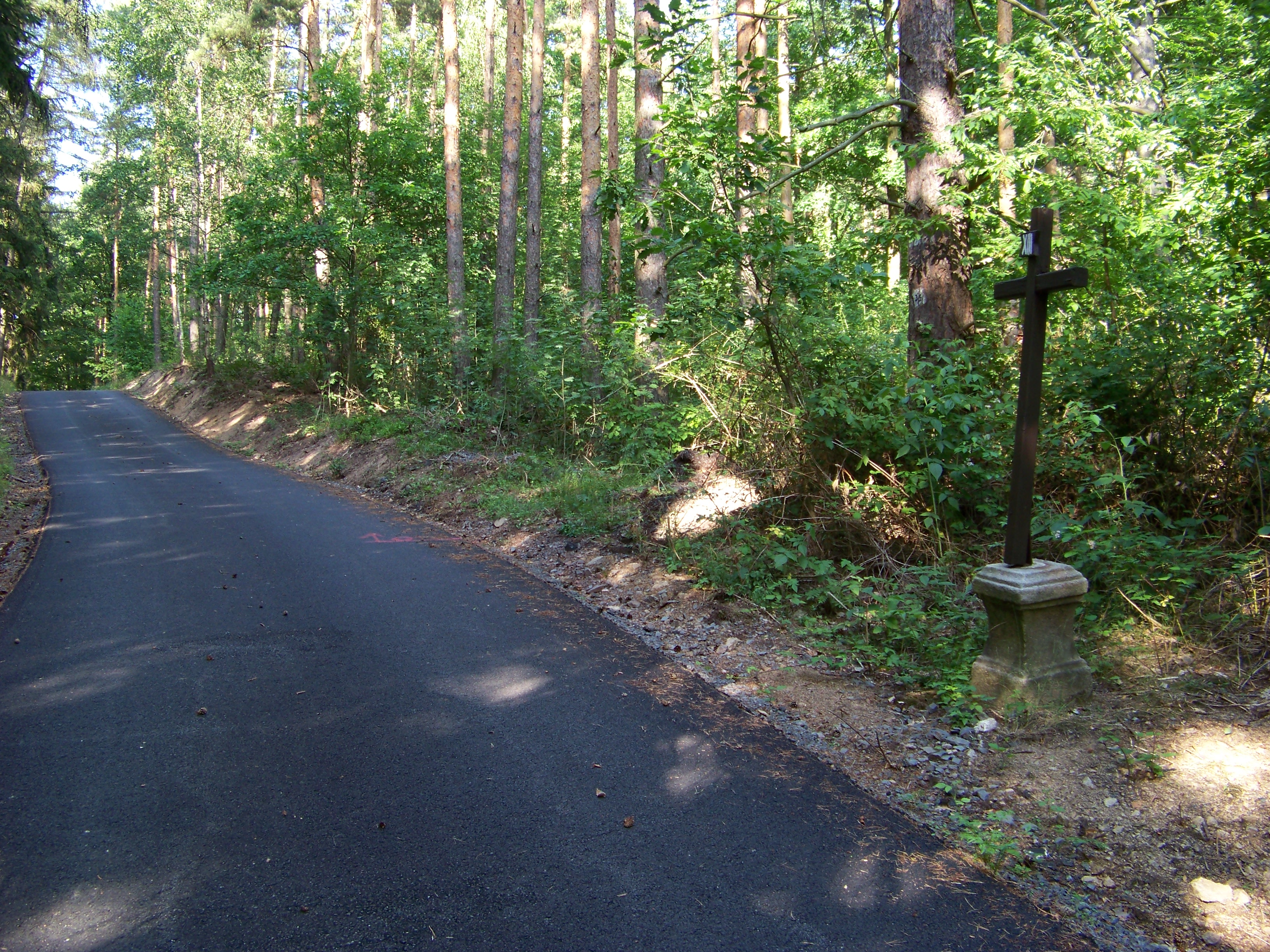 Milín-Stěžov, Příbram District, Central Bohemian Region, the Czech Republic. A forest road to the Na Pelechu forester's lodge with a station of the cross.